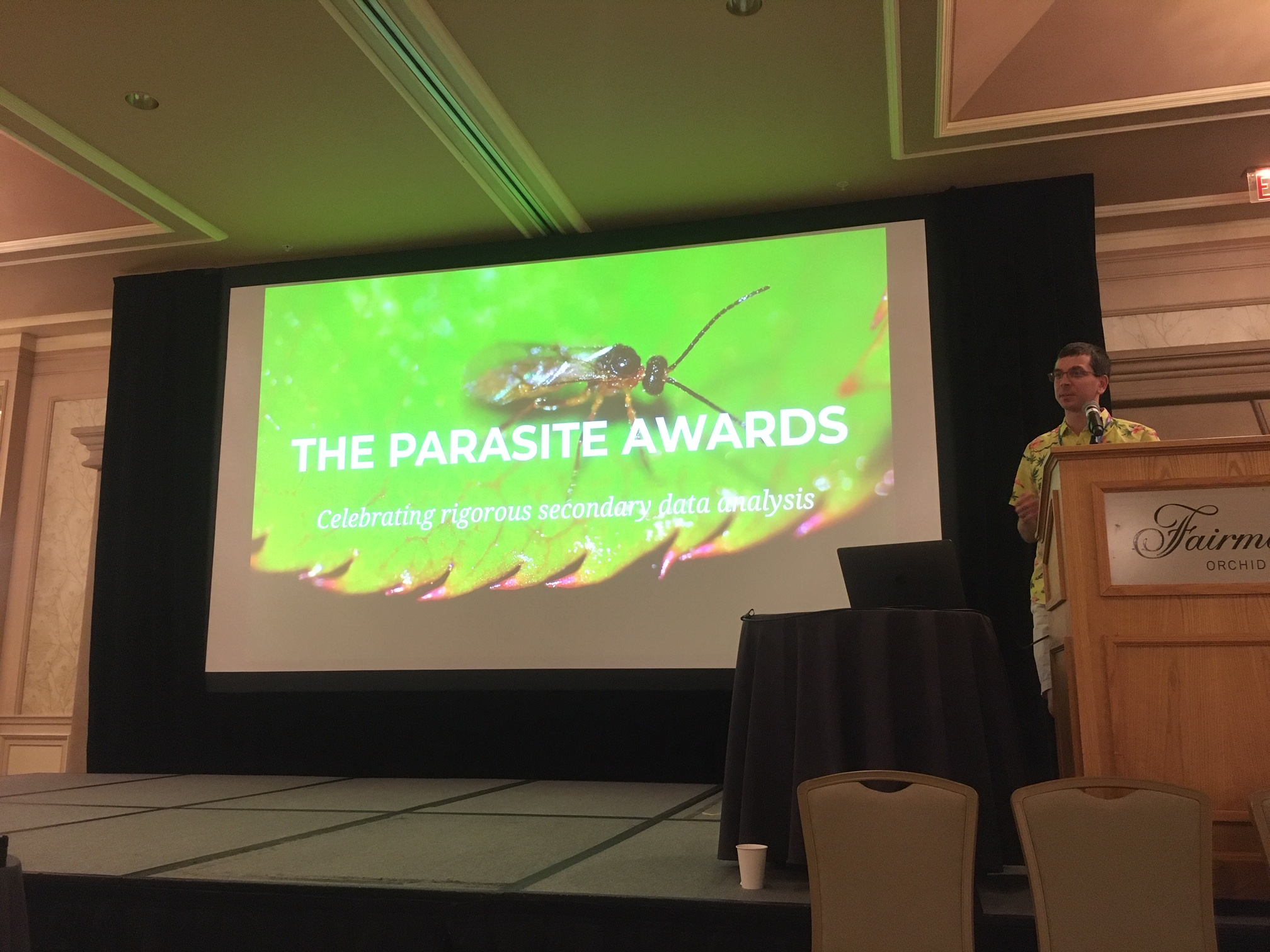 The Research Parasite Awards are given each year at the Pacific Symposium on Biocomputing for rigorous secondary analysis of data.